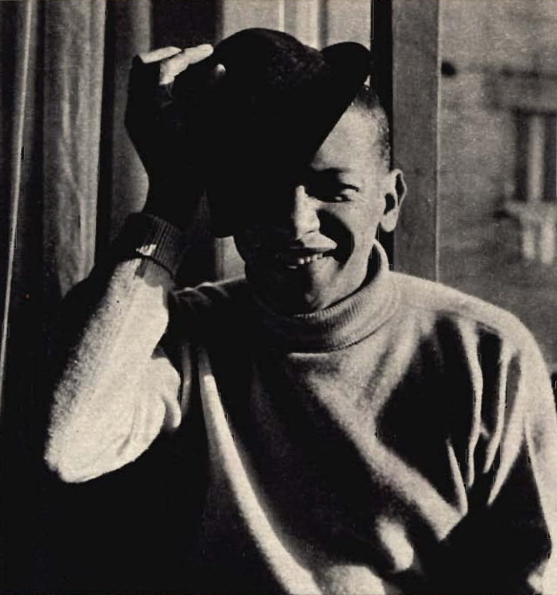 singer Henri Salvador in Rome, at the time of his participation to the Italian TV show "Giardino d'inverno"